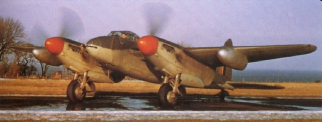 Original photograph taken by an employee of the British government. Image found on